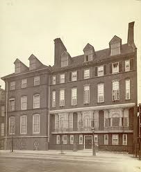 Swan House, 17 Chelsea Embankment, c. 1885; photographer: Henry Bedford Lemere